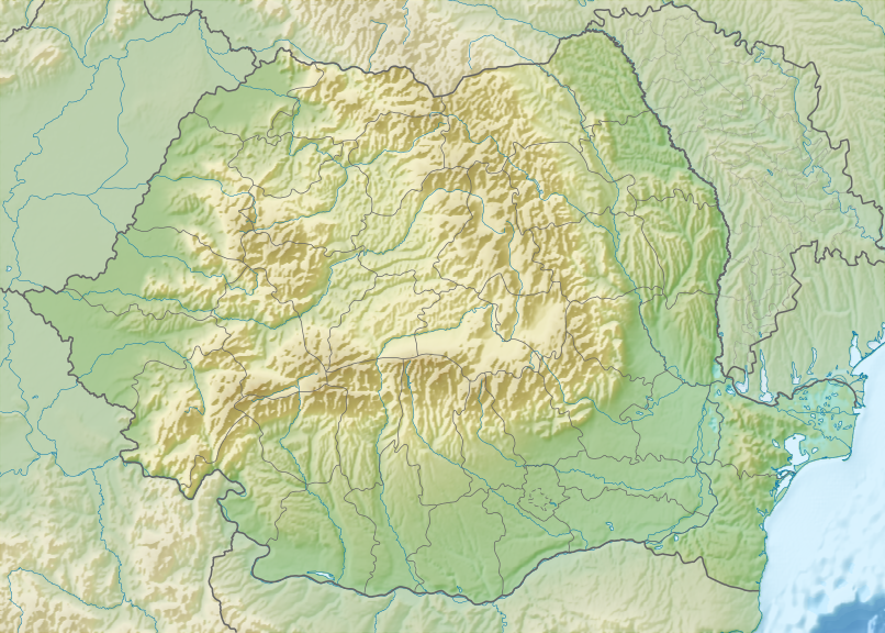 Relief map of Romania.